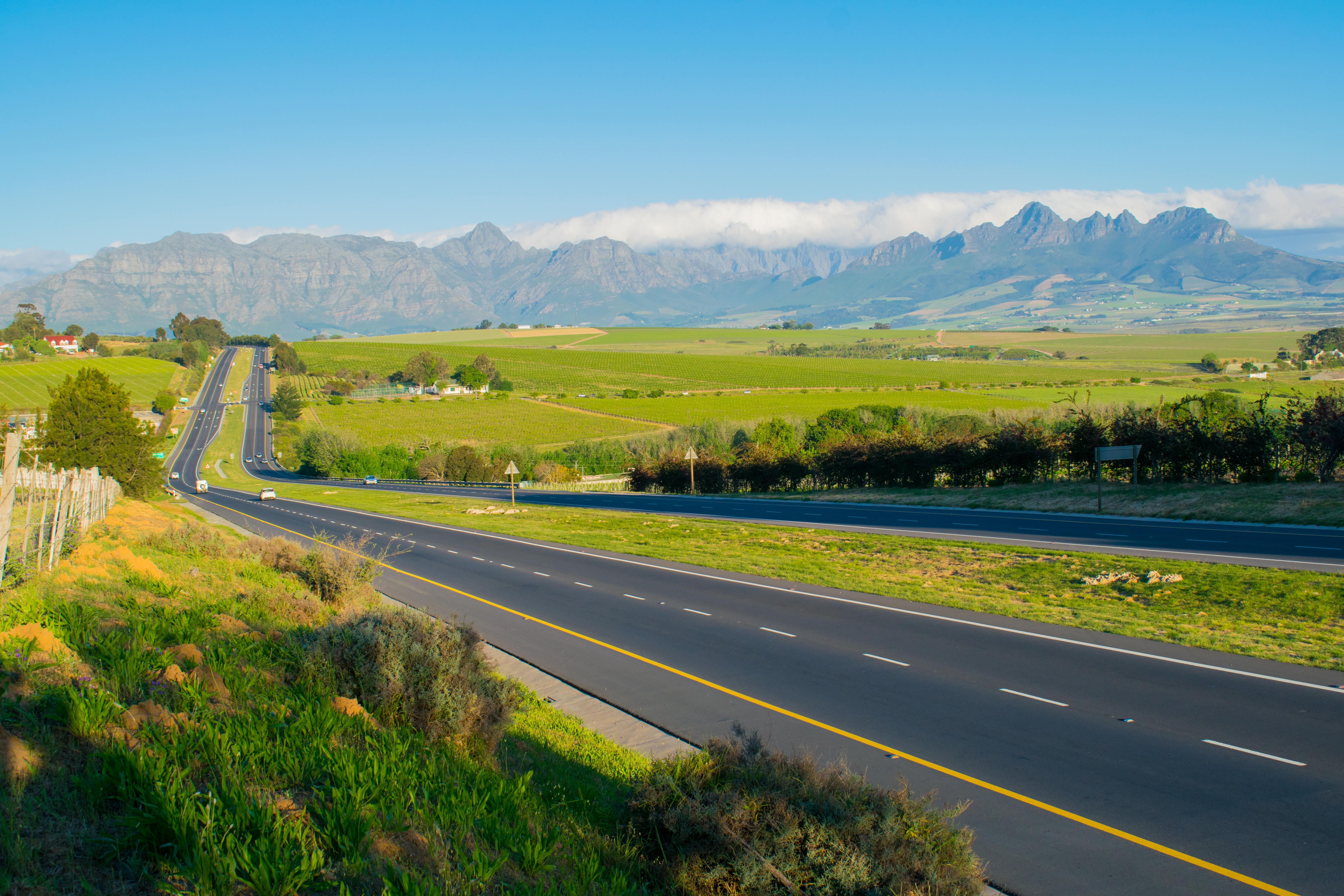 This is an image with the theme "Africa on the Move or Transport" from: South Africa